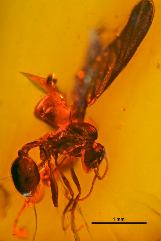 Profile view of the Stenamma berendti holotype male. Middle Eocene; Baltic amber, Samland Peninsula, Kalingrad, Russia Museum fur Naturkunde Berlin, Germany. Specimen MBIGB002